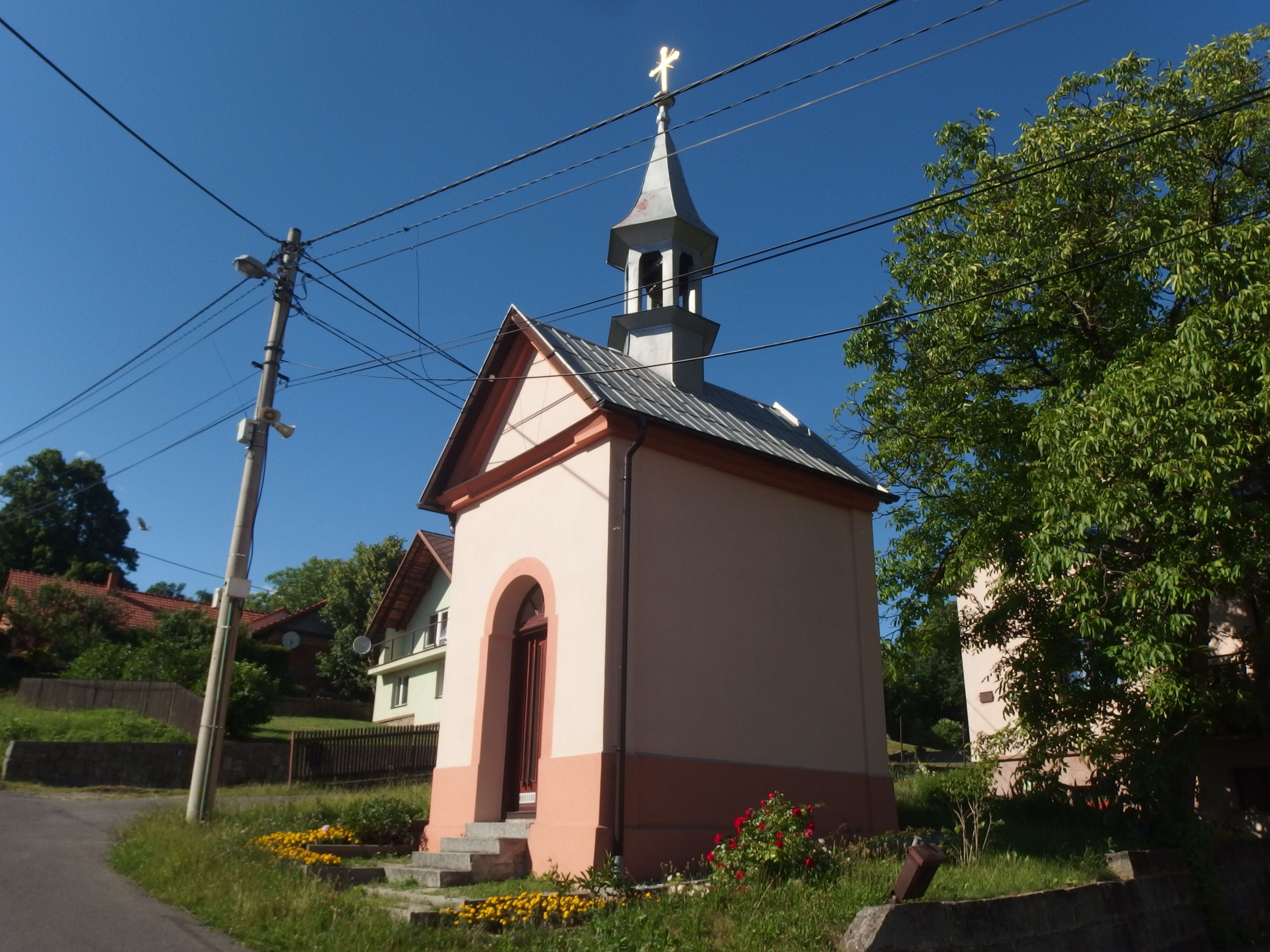 Nový Jičín, Czech Republic, part Kojetín.